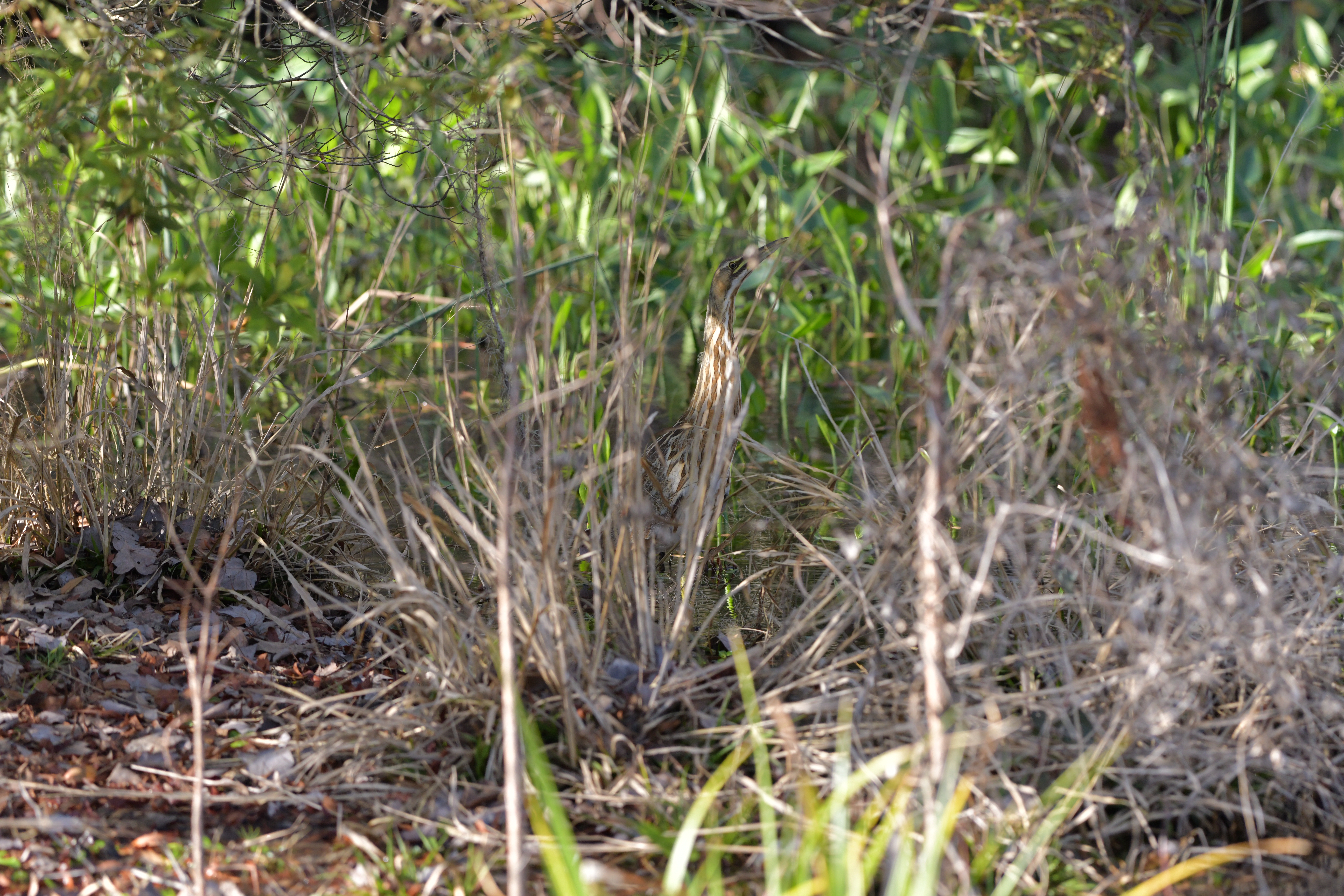 American bittern (Botaurus lentiginosus) hiding in tall grass